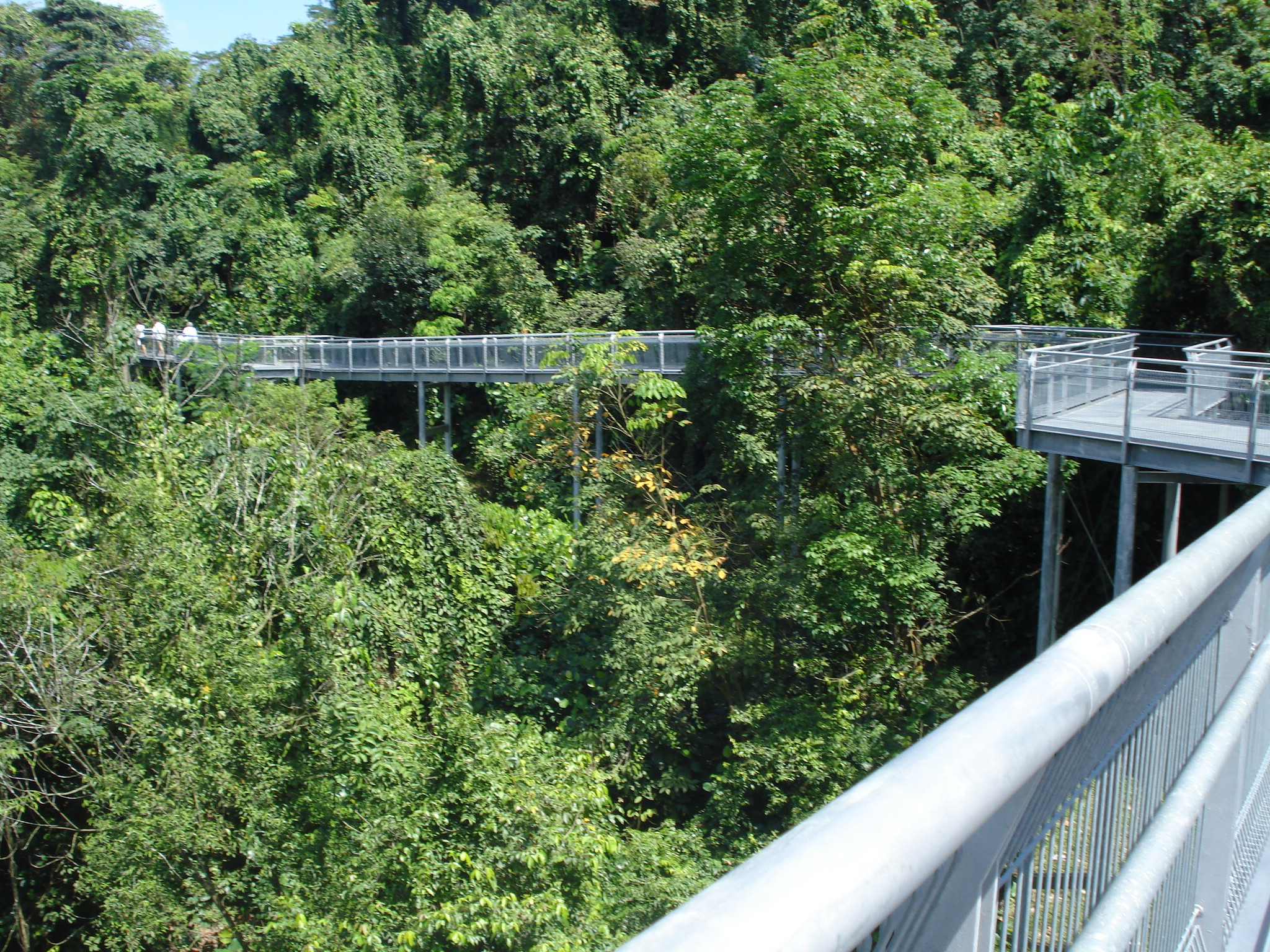 A photo of Forest Walk which is a 1.3-kilometre elevated walkway through the forests of Telok Blangah Hill.